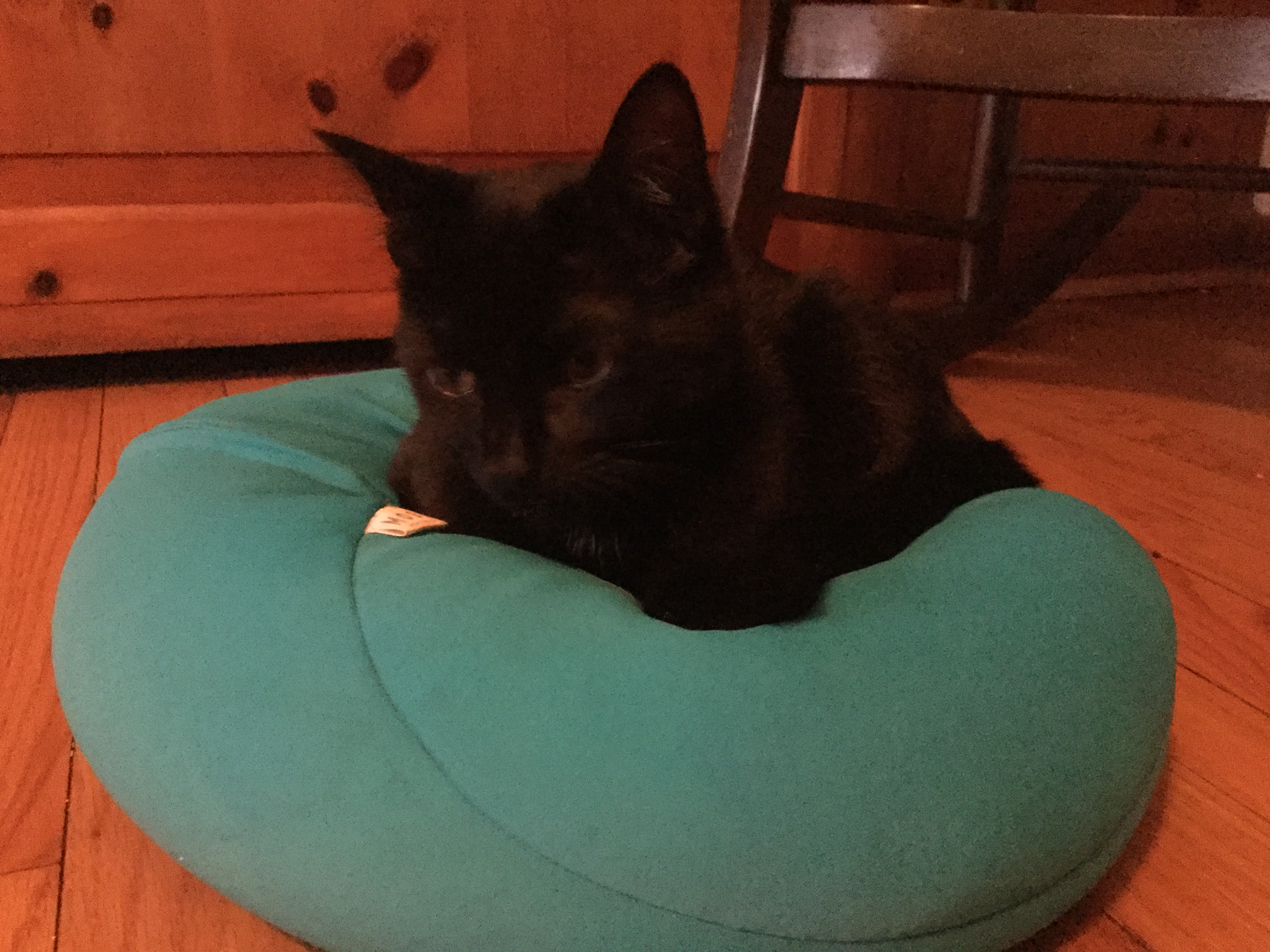 This photo shows my kitten sitting on something blue along with part of the photo showing part of a chair.